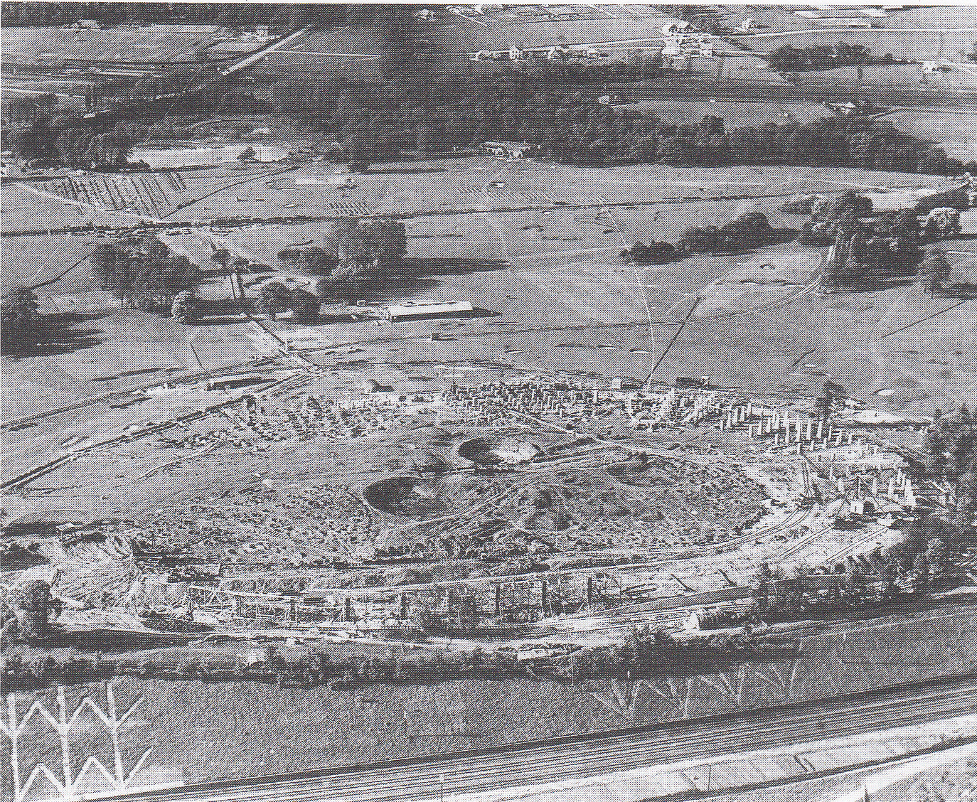 Fundament relict of Watkin's Tower